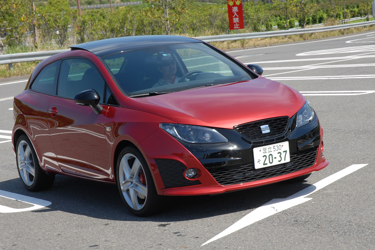 SEAT Ibiza Bocanegra in Japan